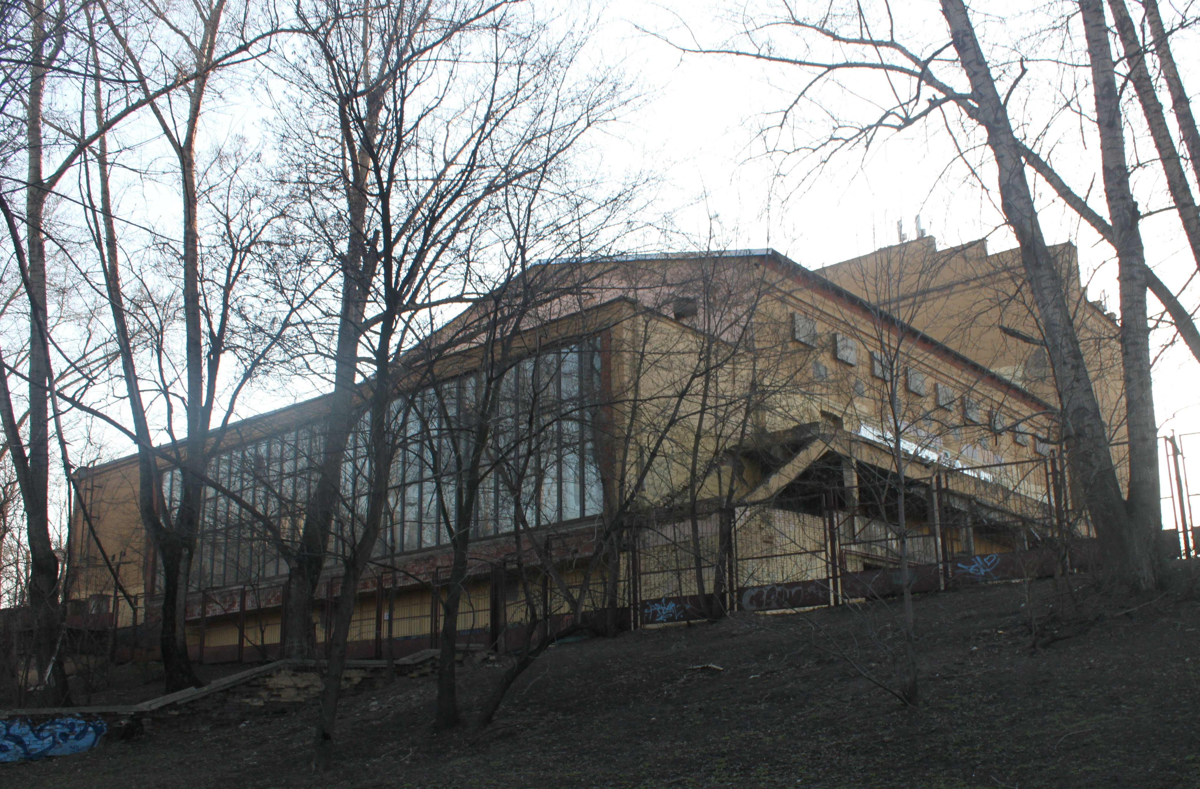 Andronyevsky Lane.